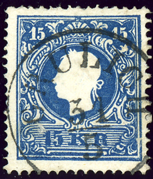 Austrian KK 15kreuzer stamp, 1859 issue, cancelled at GRULICH, Bohemia